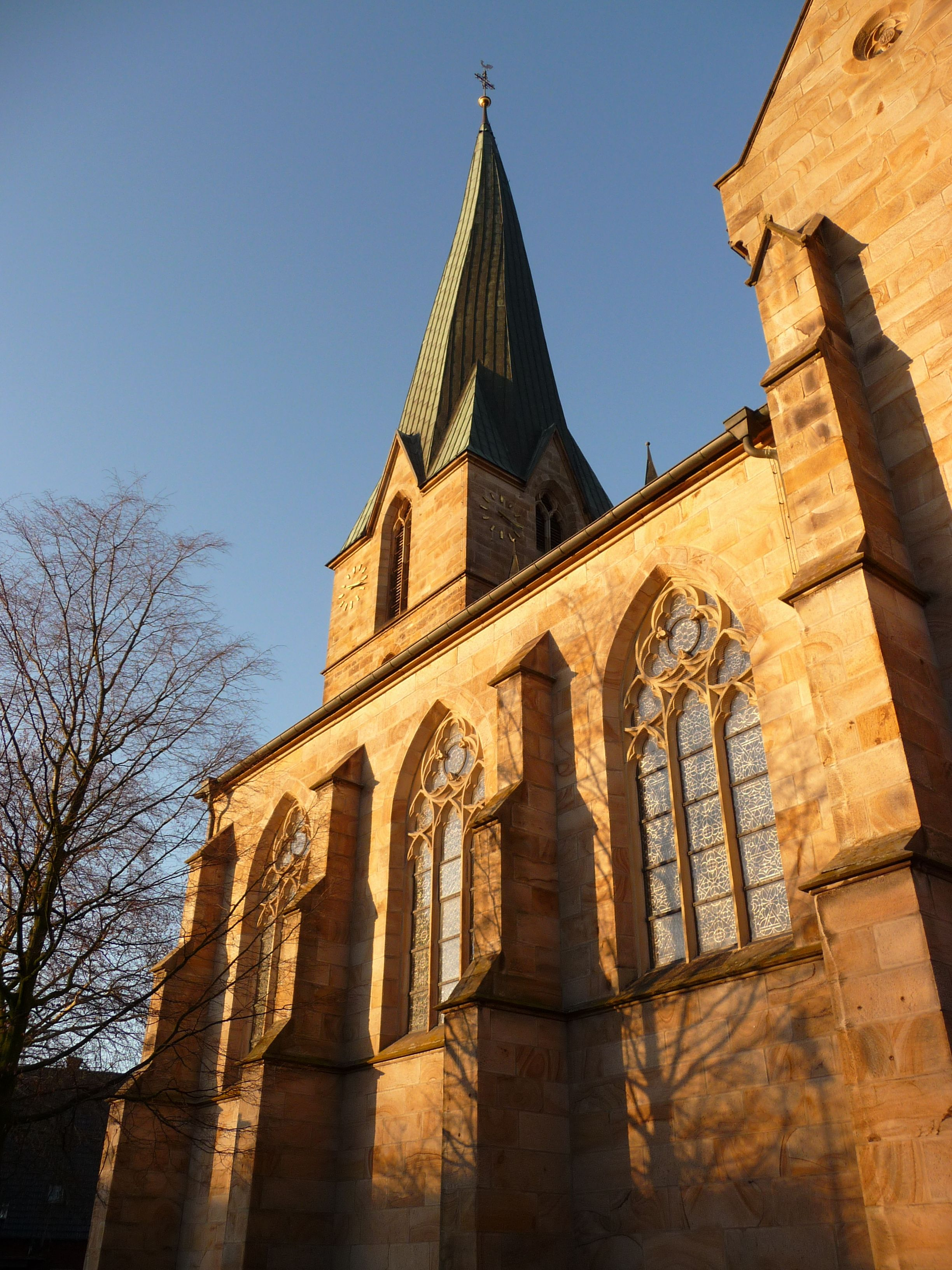 The Church of Saerbeck (Postal code: 48369 / Germany)